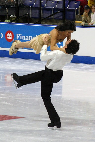 Marie-France Dubreuil & Patrice Lauzon perform a lift at the 2006 Skate Canada International.